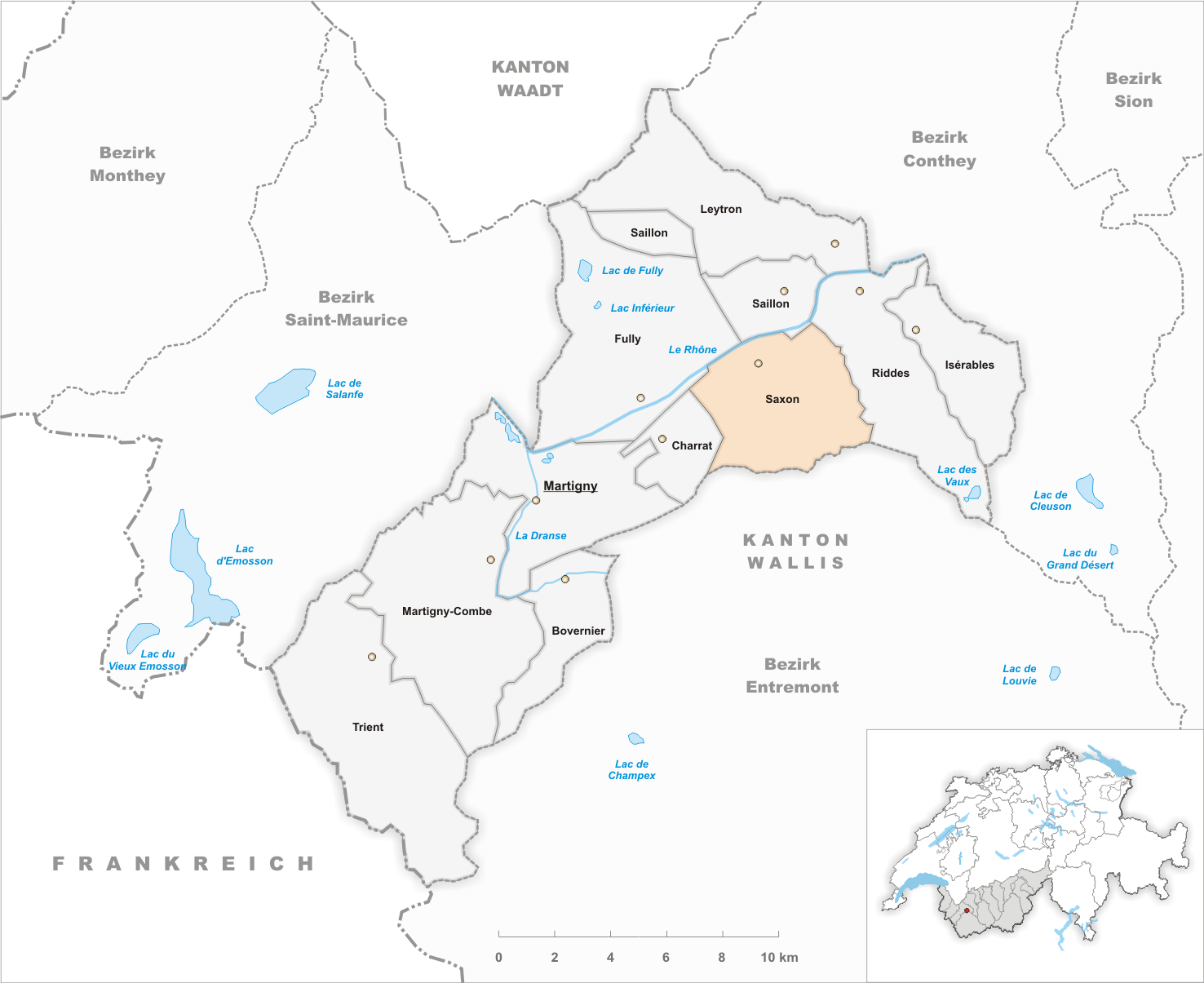 Municipality Saxon